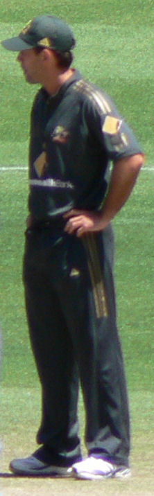 Cropped: Ponting during toss V India ODI 4th ODI Feb 10 2008 at the MCG.